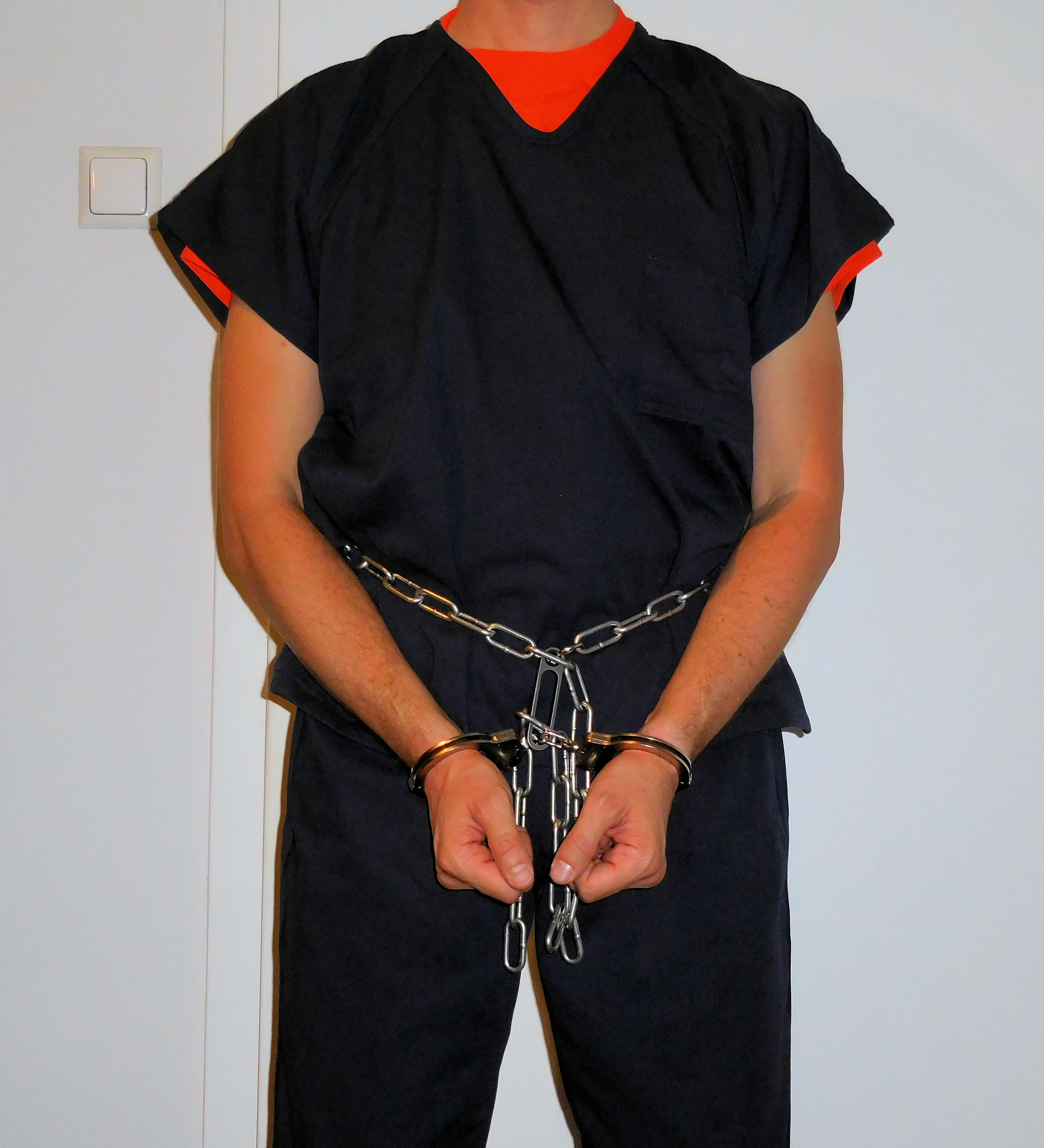 Inmate in dark blue uniform and handcuffs on a belly chain with a "martin link"